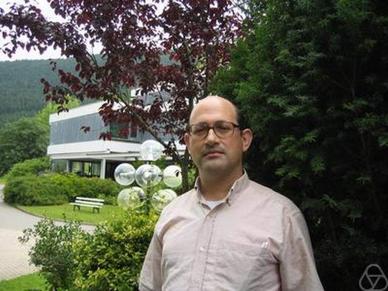 Ofer Gabber, Oberwolfach 2004